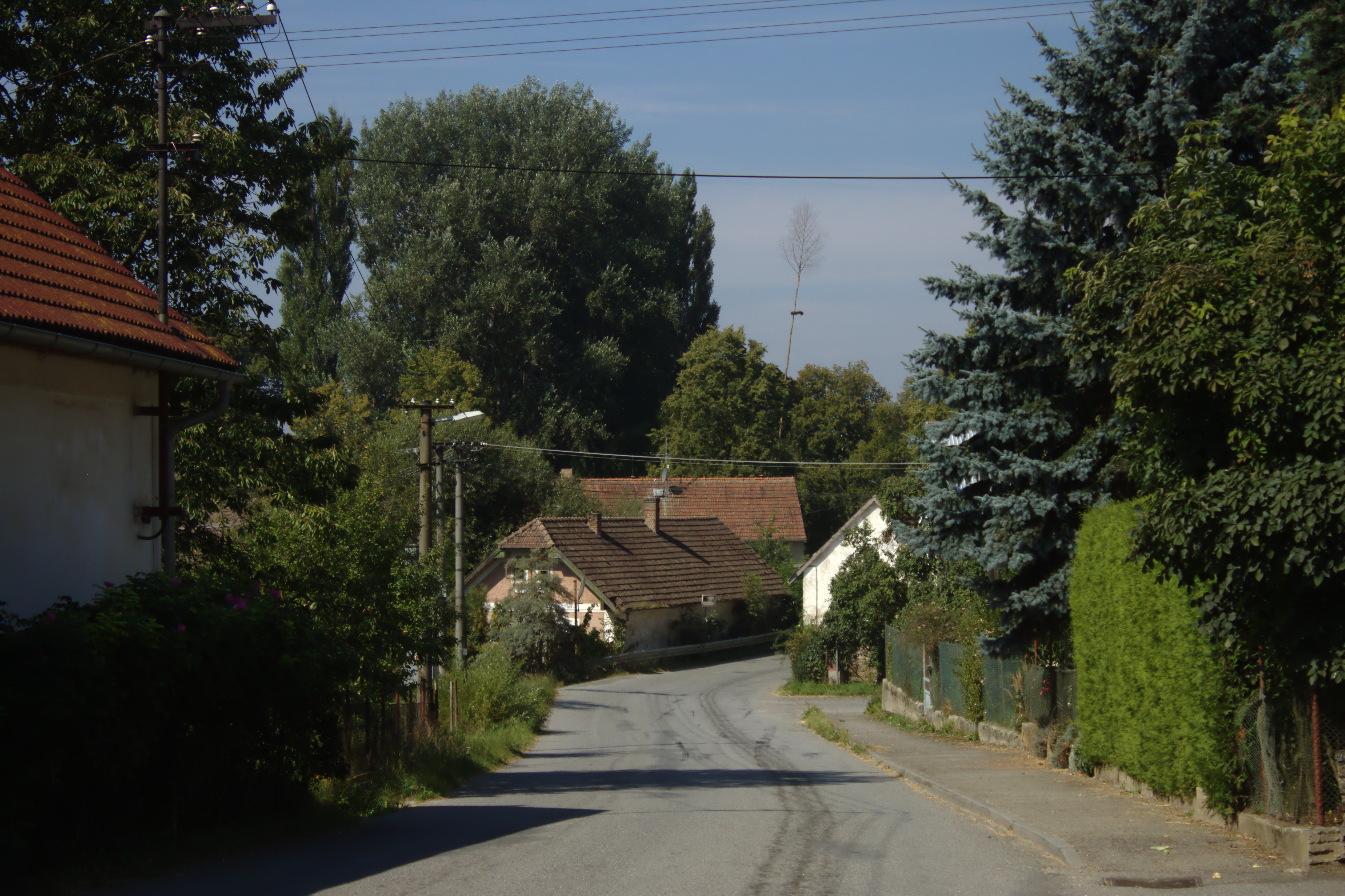 A road in the village of Dolní Hořice